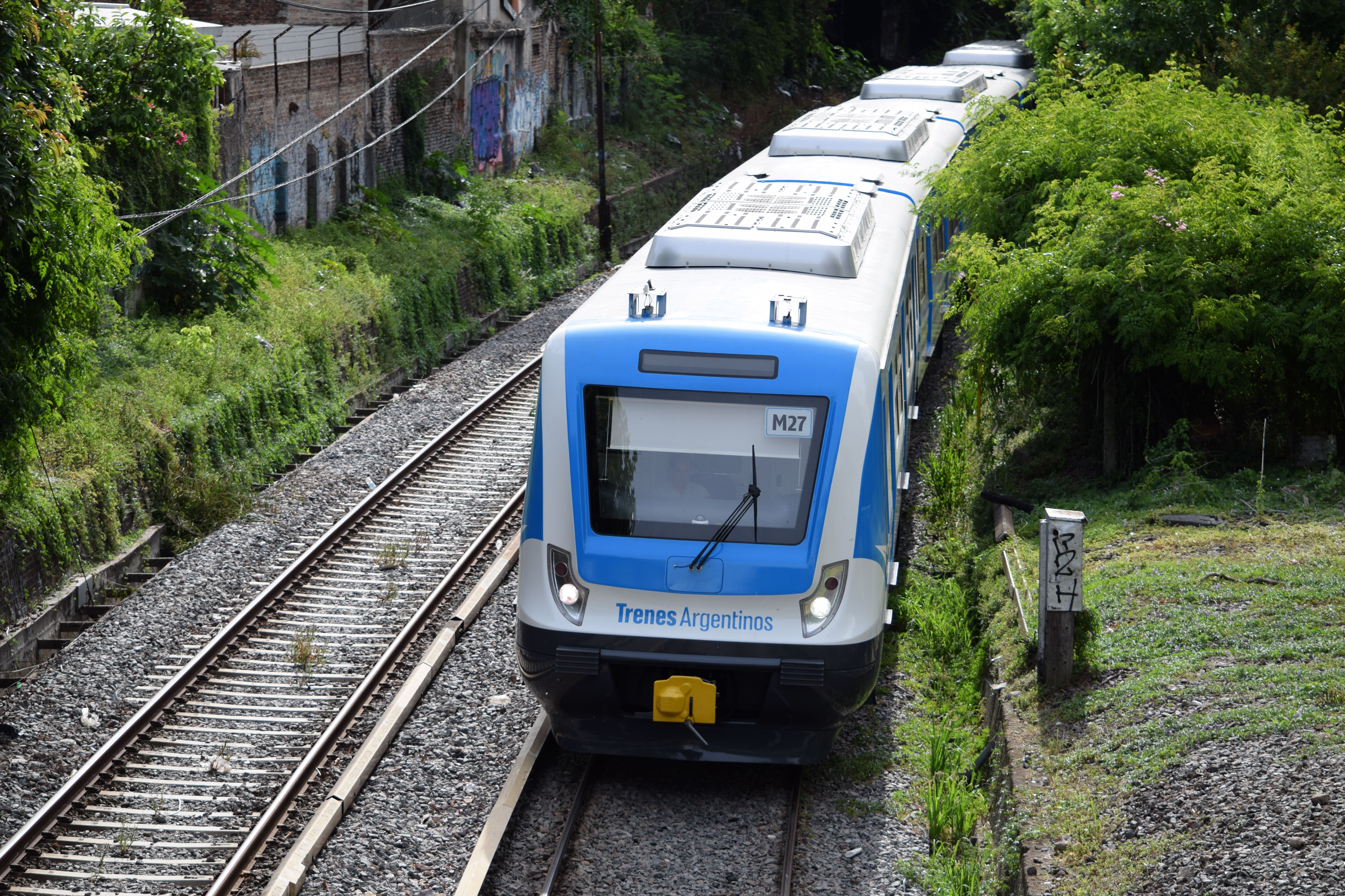 CSR EMU entering Ministro Carranza Station.